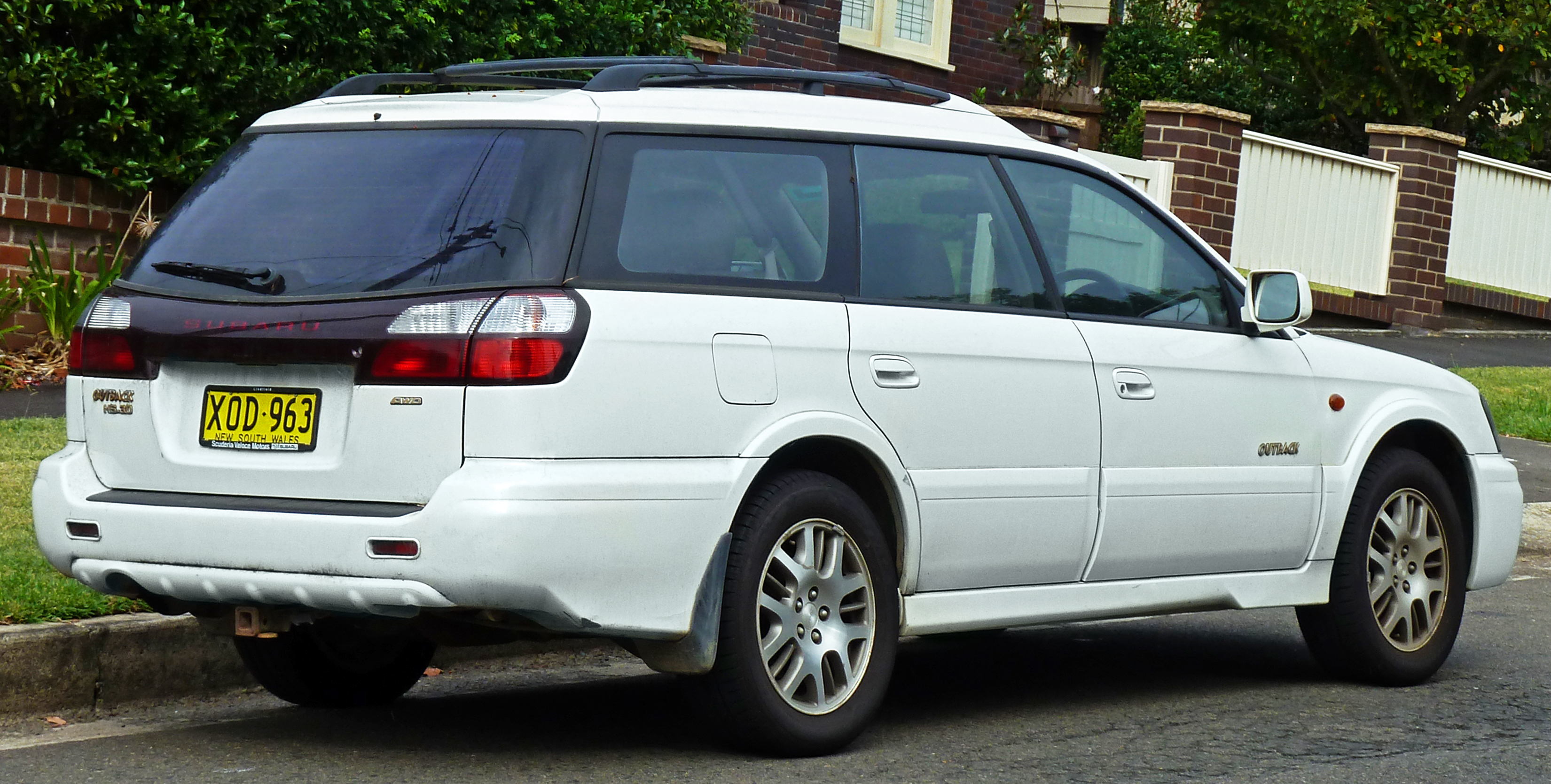 2001 Subaru Outback (BHE MY02) H6 station wagon. Photographed in Lindfield, New South Wales, Australia.